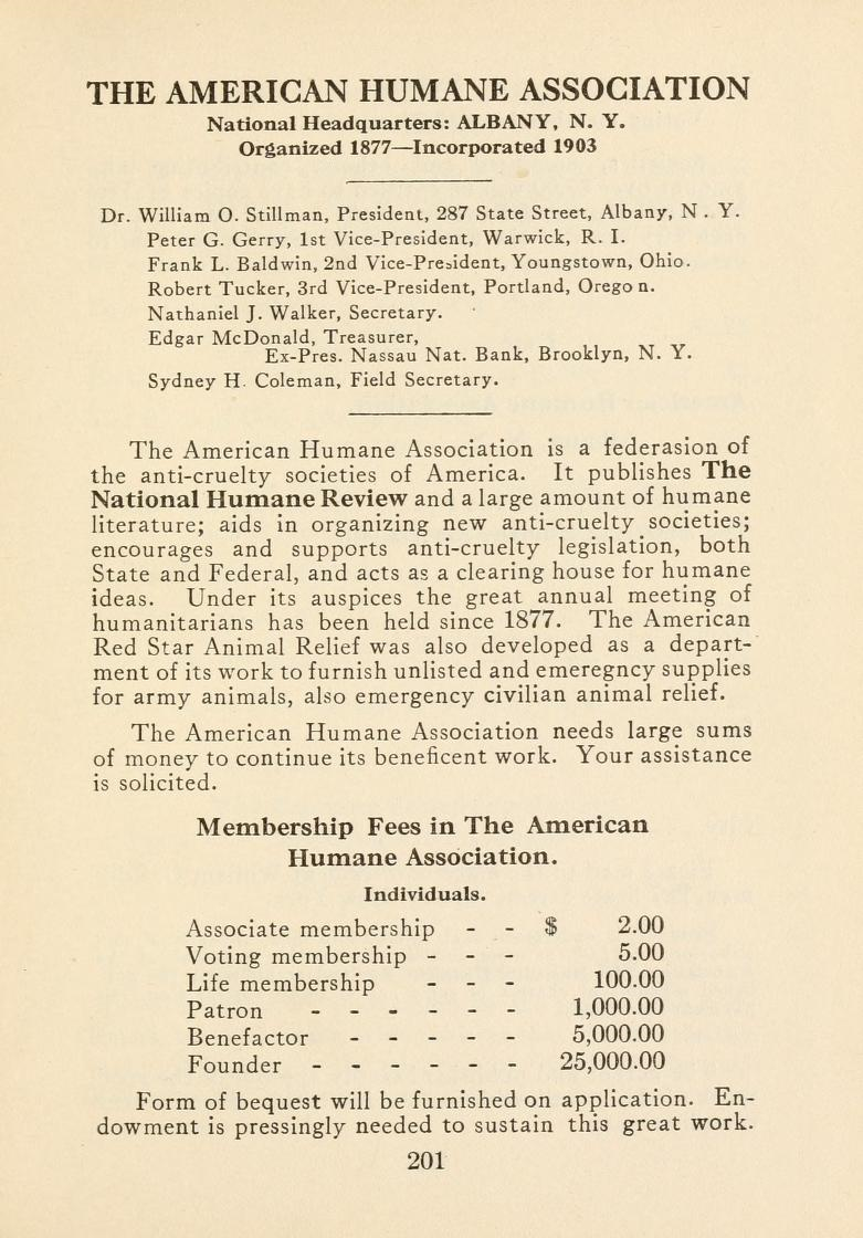 Information about the American Humane Association.